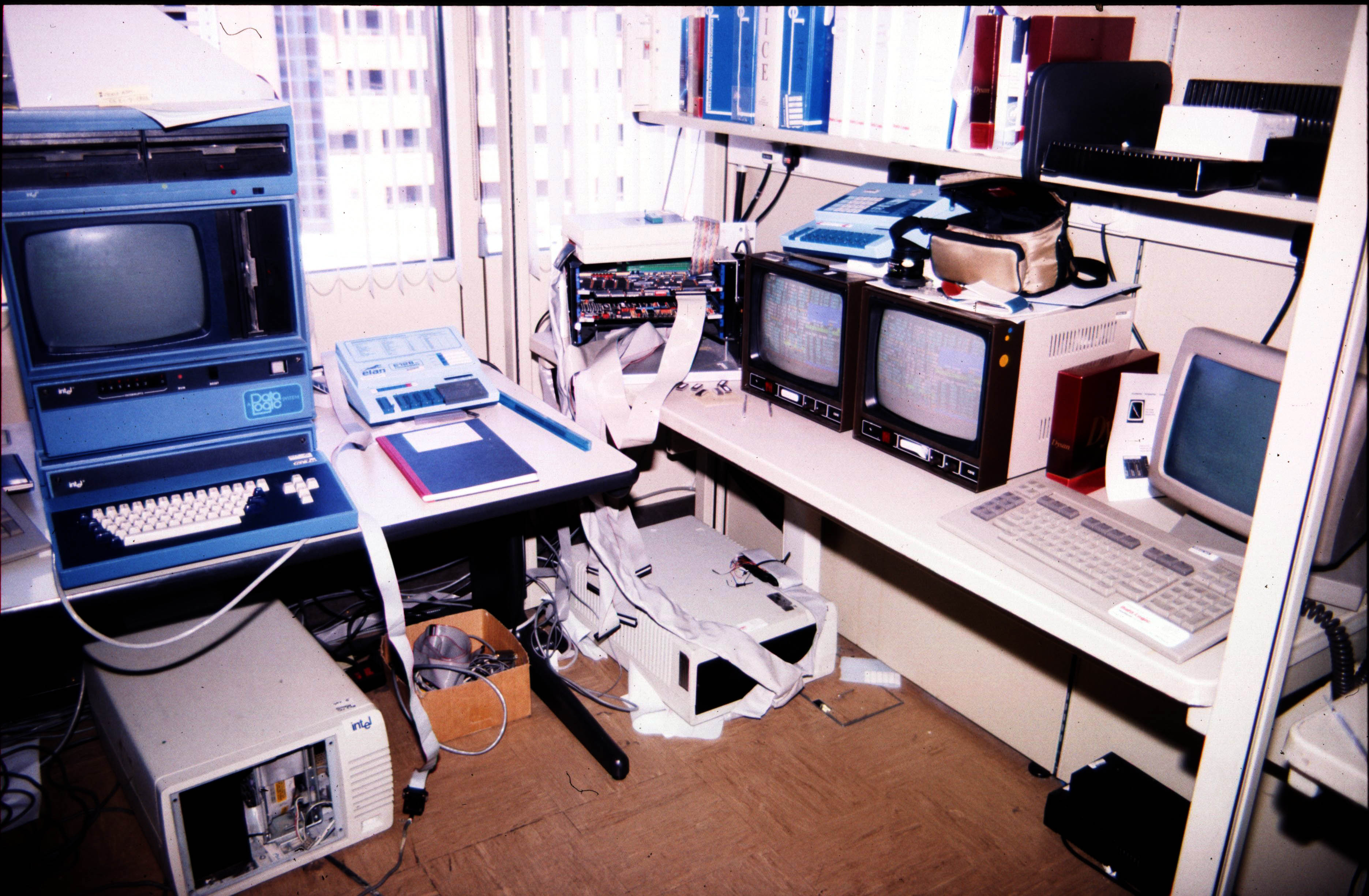 Photographer's description: "Development environment for the Data Logic "Digital Service Adaptor Card". The first version of the software was very buggy and I spent a lot of time at this rig writing soak tests, single stepping through the 8088 assembler as well as helping debug the hardware. Writing a fully reentrant Z80 serial driver so it could be triggered by the NMI was .. interesting.." Taken at the offices of DataLogic in Harrow-on-the-Hill, United Kingdom, in April 1987. Mr. Downey itemises the equipment shown on Flickr.